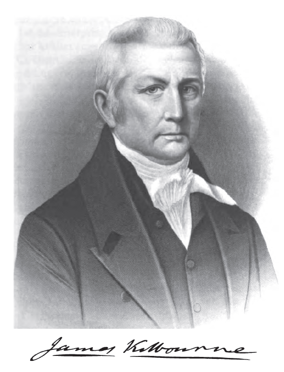 James Kilbourne, an ohio congressman